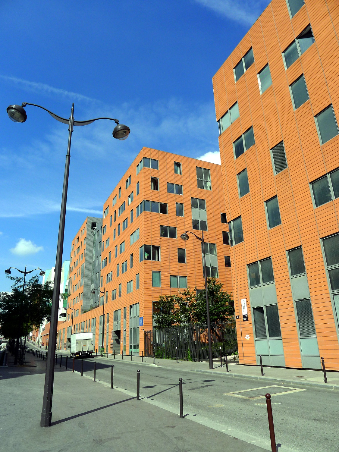 Alice-Domon-et-Léonie-Duguet street - Paris